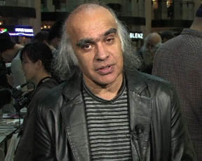 Sut Jhally in Vancouver at Media and Democracy Days